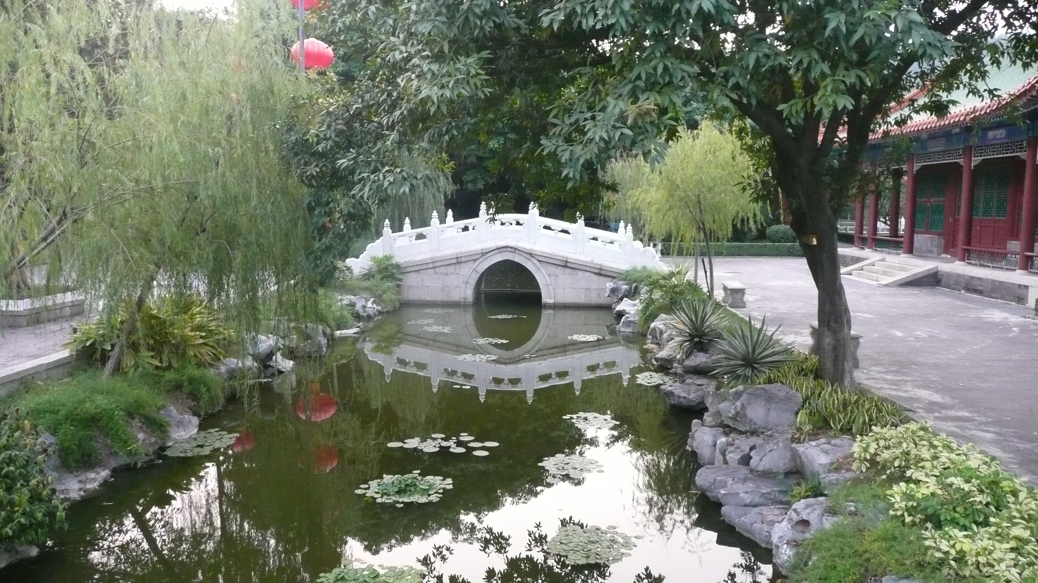 The New Yuan Ming Palace in Zhuhai is a partial reconstruction of the Old Summer Palace in Beijing, destroyed in 1860.